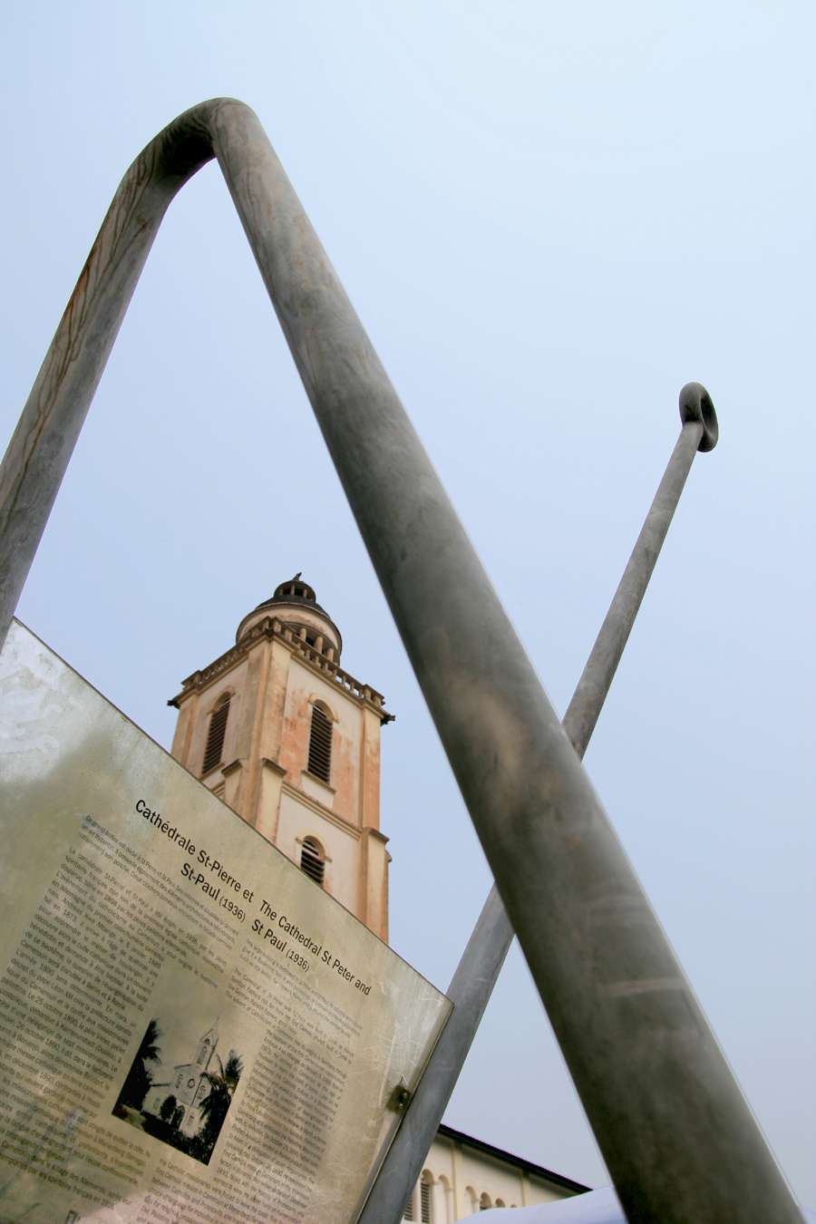 Sandrine Dole, l'arche (the arch), 2006-2007. Urban signage in steel, plexiglas, concrete. Production/installation Cameroon. Designed for the client doual'art with institutional funds.